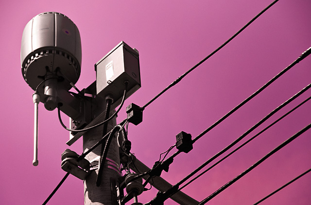 One of the "kegs" used by Toronto Hydro to both keep tabs of their system and provide WiFi to Torontonians across 235 city blocks. I took this shot for this article .